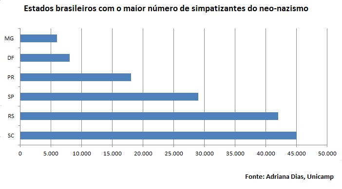 Brazilian states by neonazi supporters.